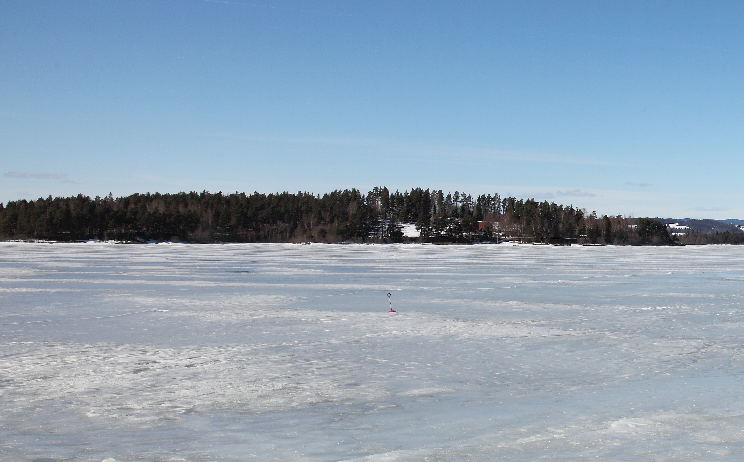 Utøya island seen from Utstranda in Hole, Norway